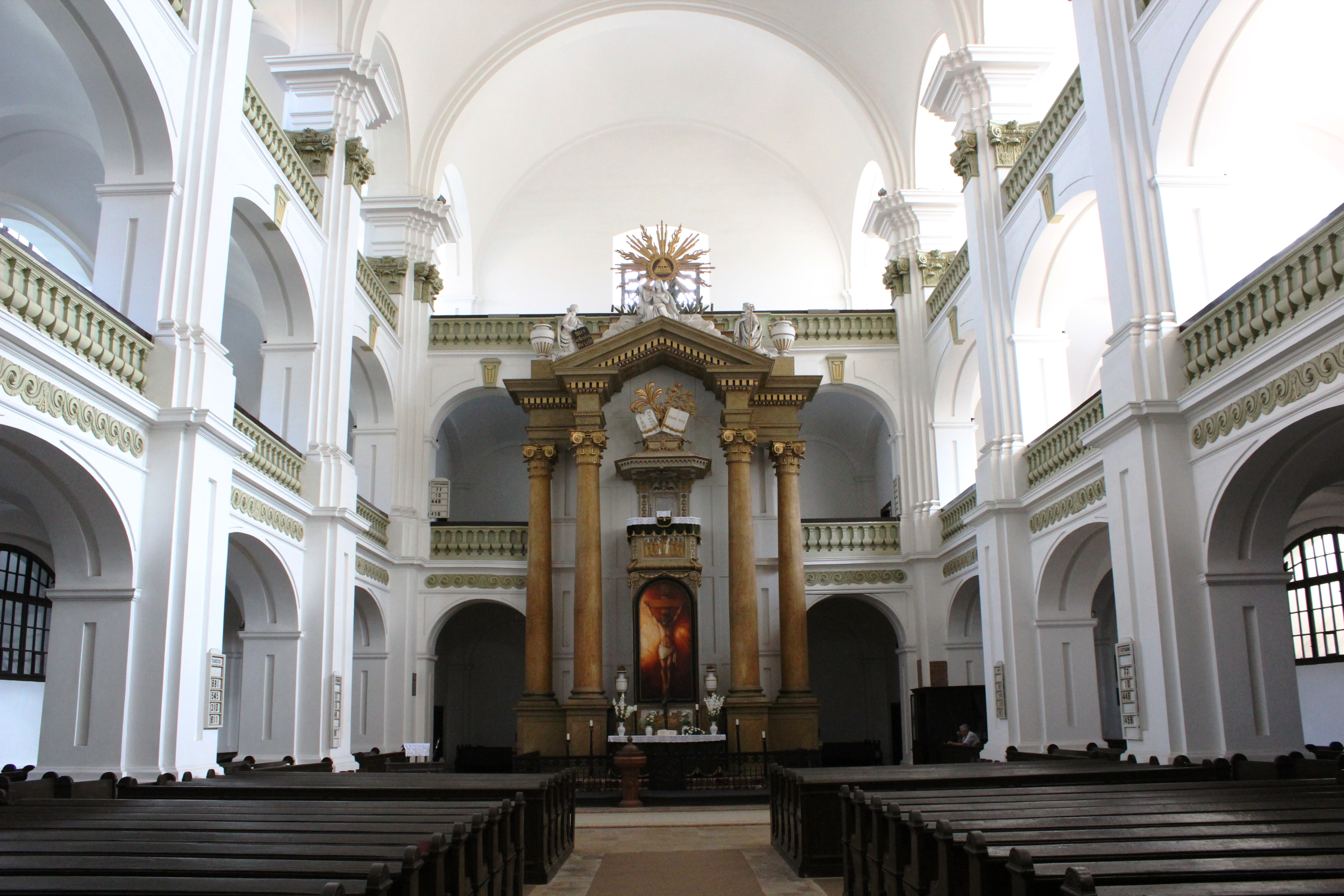 The interior of great evangelic church, with chronogram (Békéscsaba, Hungary).